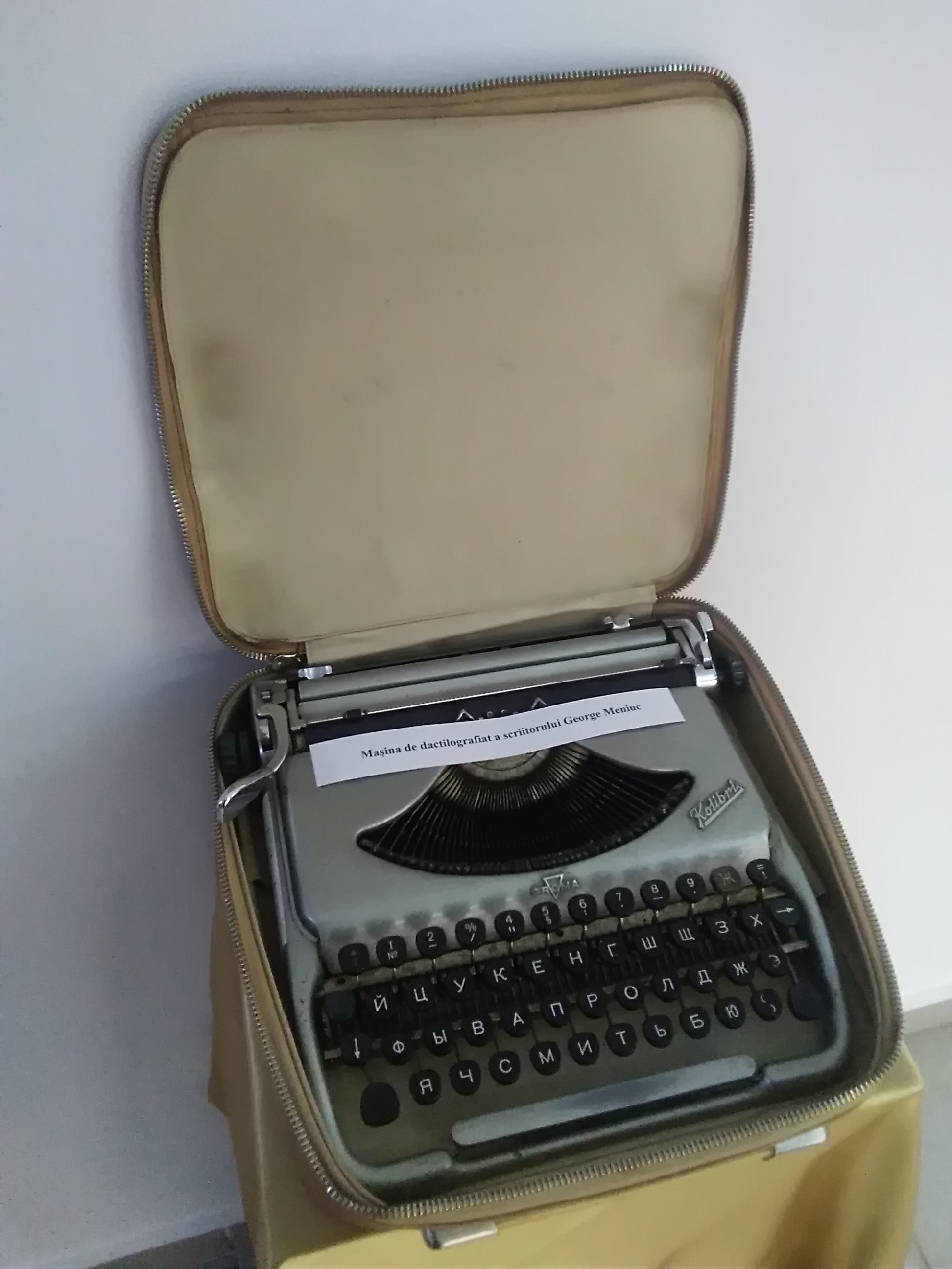 Typewriter of Moldovan writer George Meniuc, exhibited at the National Library of Moldova